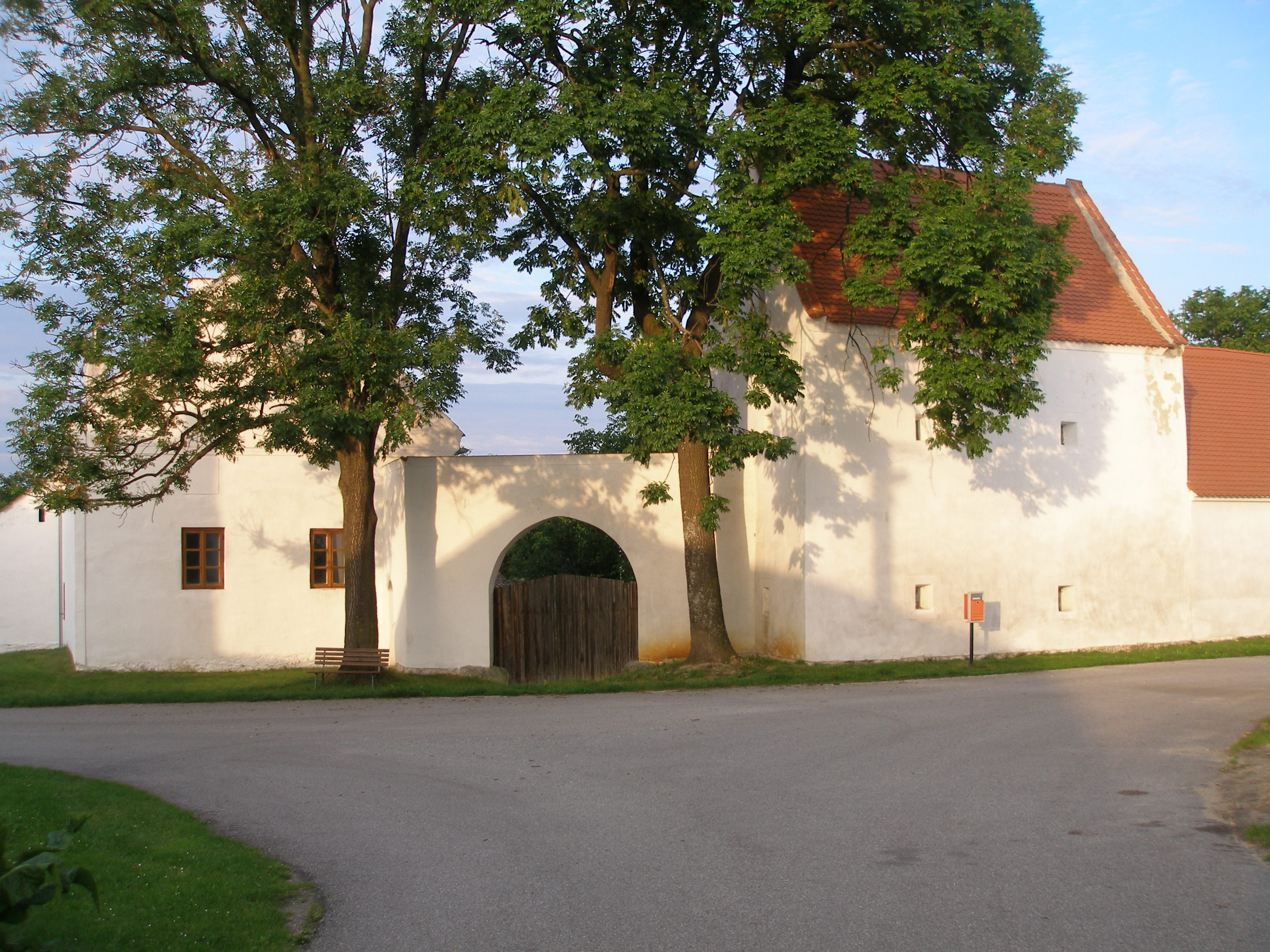 Krnín (Český Krumlov District) - the house No. 3